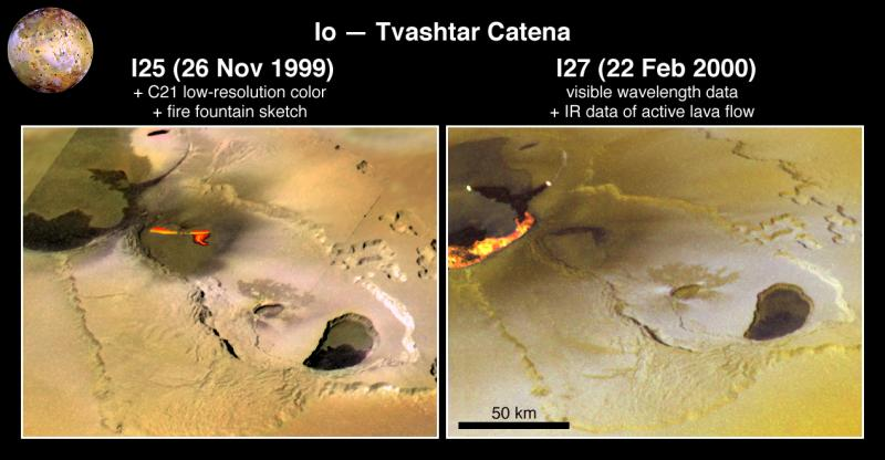 This pair of images taken by NASA's Galileo spacecraft captures a dynamic eruption at Tvashtar Catena, a chain of volcanic bowls on Jupiter's moon Io. They show a change in the location of hot lava over a period of a few months in 1999 and early 2000. The image on the left uses data obtained on Nov. 26 and July 3, 1999, at resolutions of 183 meters (600 feet) and 1.3 kilometers (0.8 miles) per pixel, respectively. The red and yellow lava flow itself is an illustration based upon imaging data. The image on the right is a composite using a five-color observation made on Feb. 22, 2000, at 315 meters (1030 feet) per pixel.